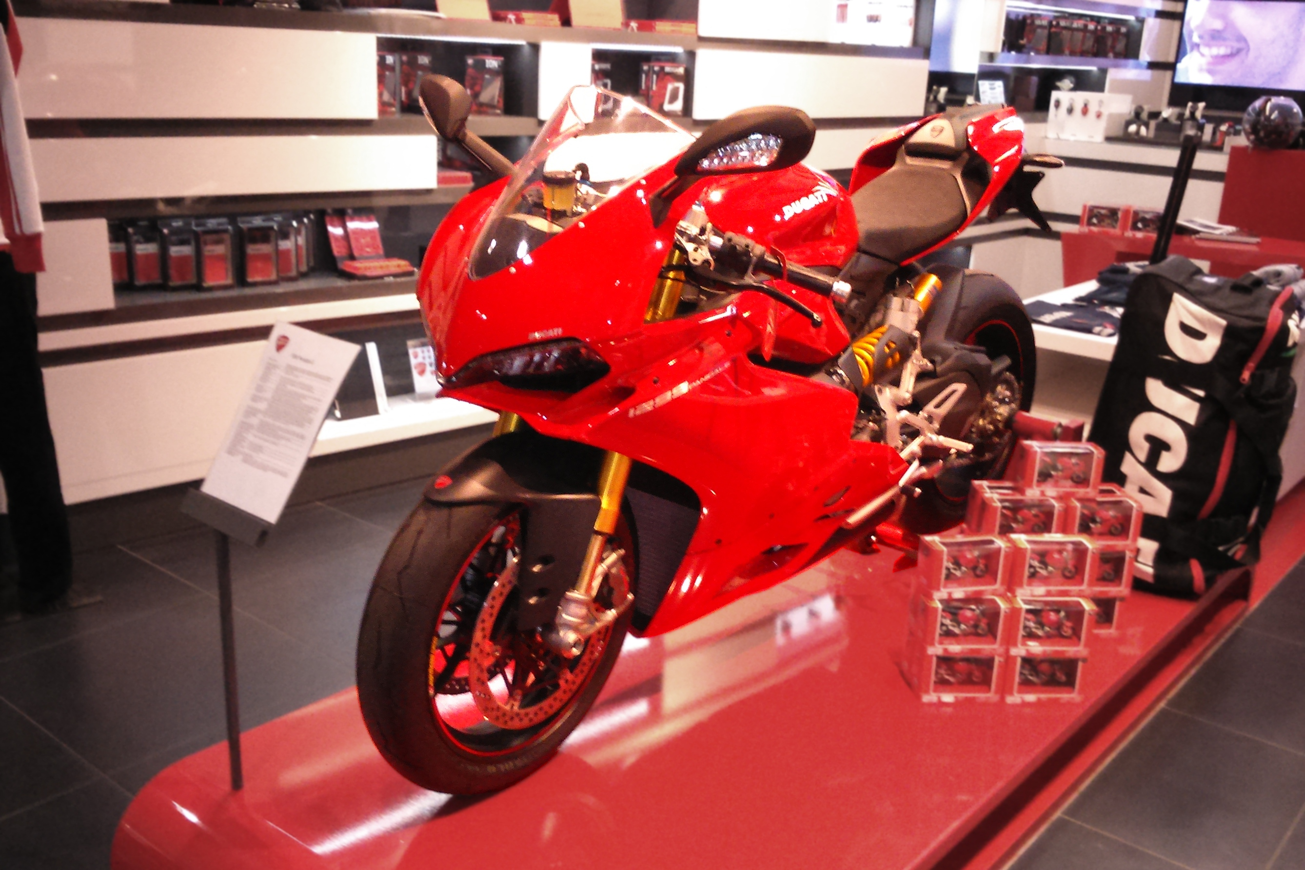 A Ducati 1299 Panigale exhibited in the Ducati Store of the Bologna Guglielmo Marconi Airport (Italy, 2015).